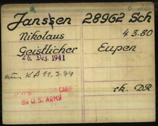 Registration card of Nikolaus Jansen as a prisoner at Dachau Nazi Concentration Camp. Red stamp means he was liberated from Dachau by the U. S. Army.